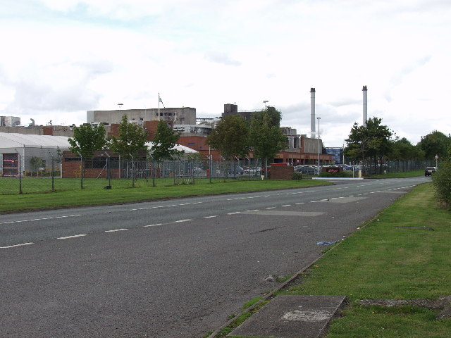 Wrecsam Industrial Estate. Yet another very famous name - Kellogs breakfast cereals and energy bars.